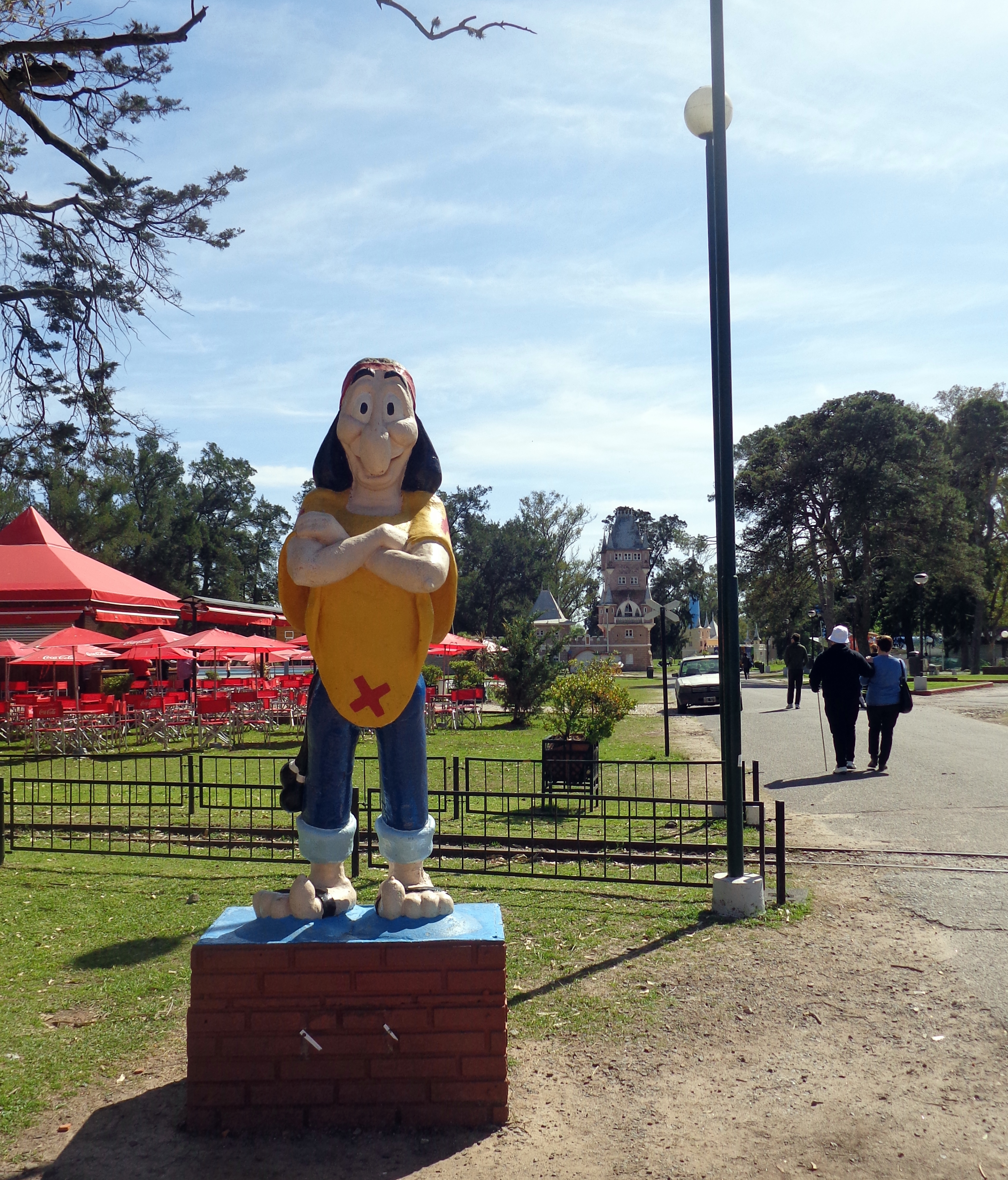 The Republic of Children, Gonnet, La Plata, Buenos Aires province, Argentina.